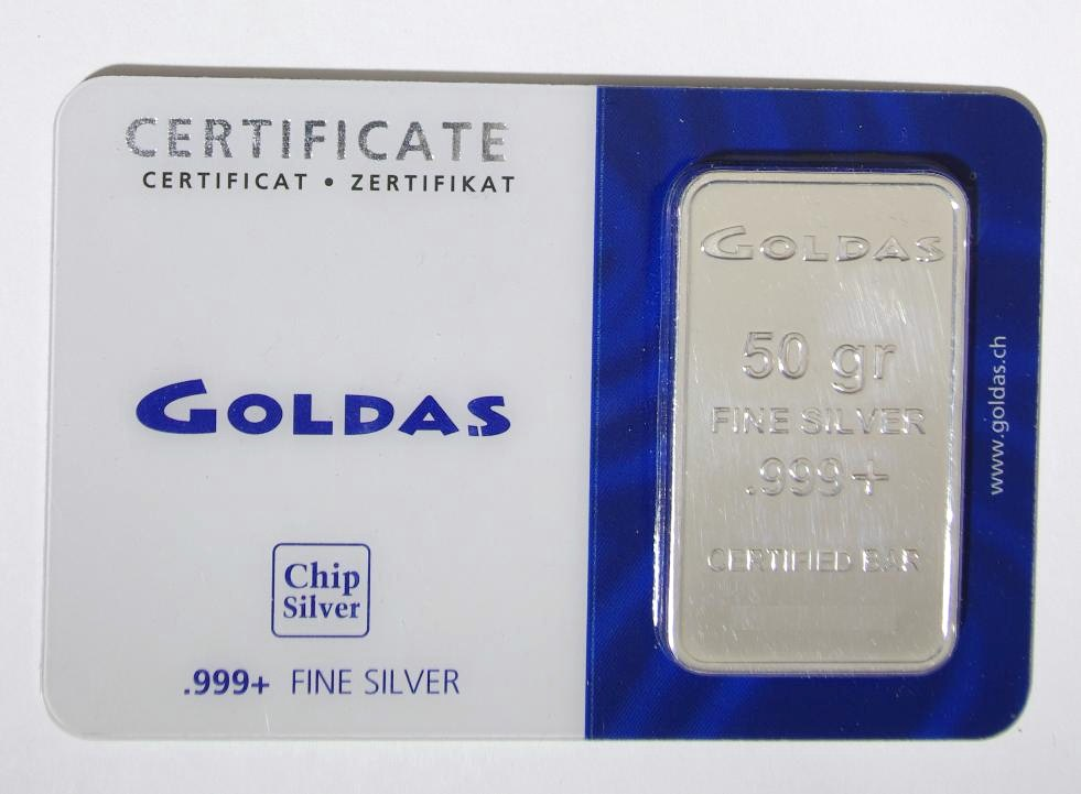 silver bullion bar with assay card